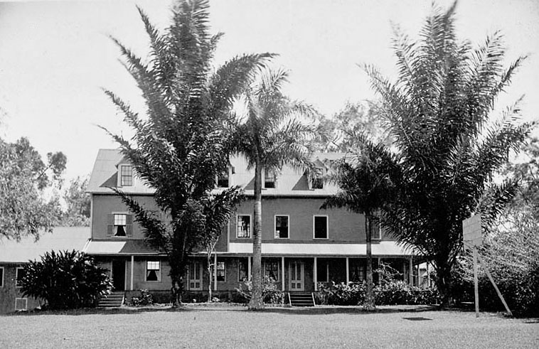 The Kohala Seminary for girls was established in 1973 by Ellen and Elias Bond, founders of Kalahikiola Church. Its first principal was Elizabeth M. Lyons, daughter of Lorenzo Lyons of the Imiola Church.